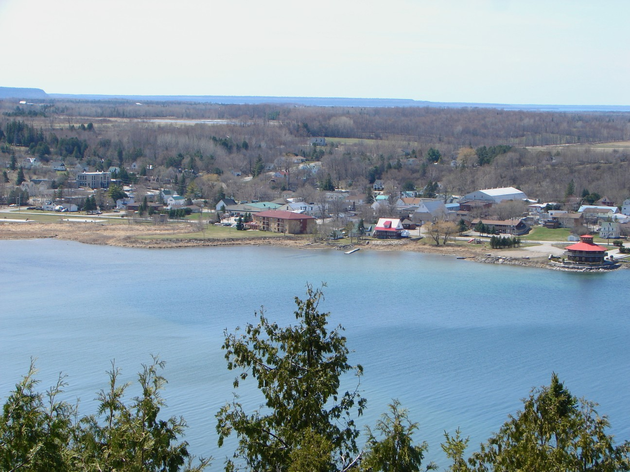 Gore Bay, Manitoulin Island, Ontario, Canada